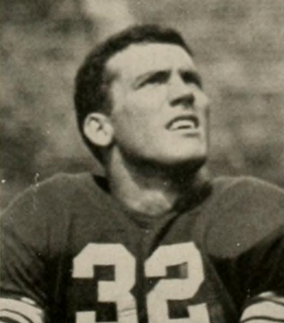 Kelly Mote c. 1947